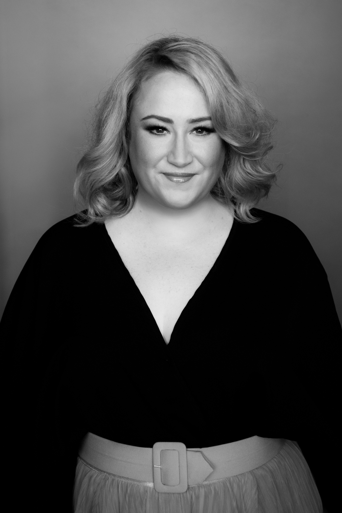 Image of Rosie Waterland during recent photo shoot